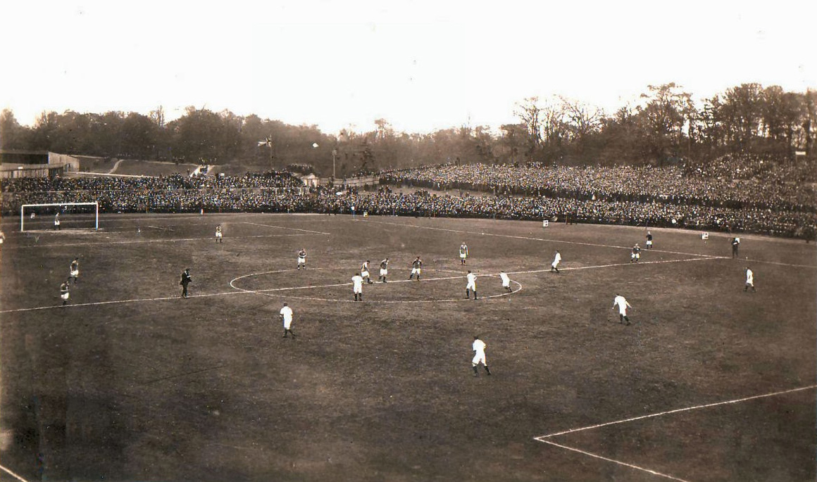 A black-and-white photograph of North Road, a former football ground in Newton Heath, Manchester, England.